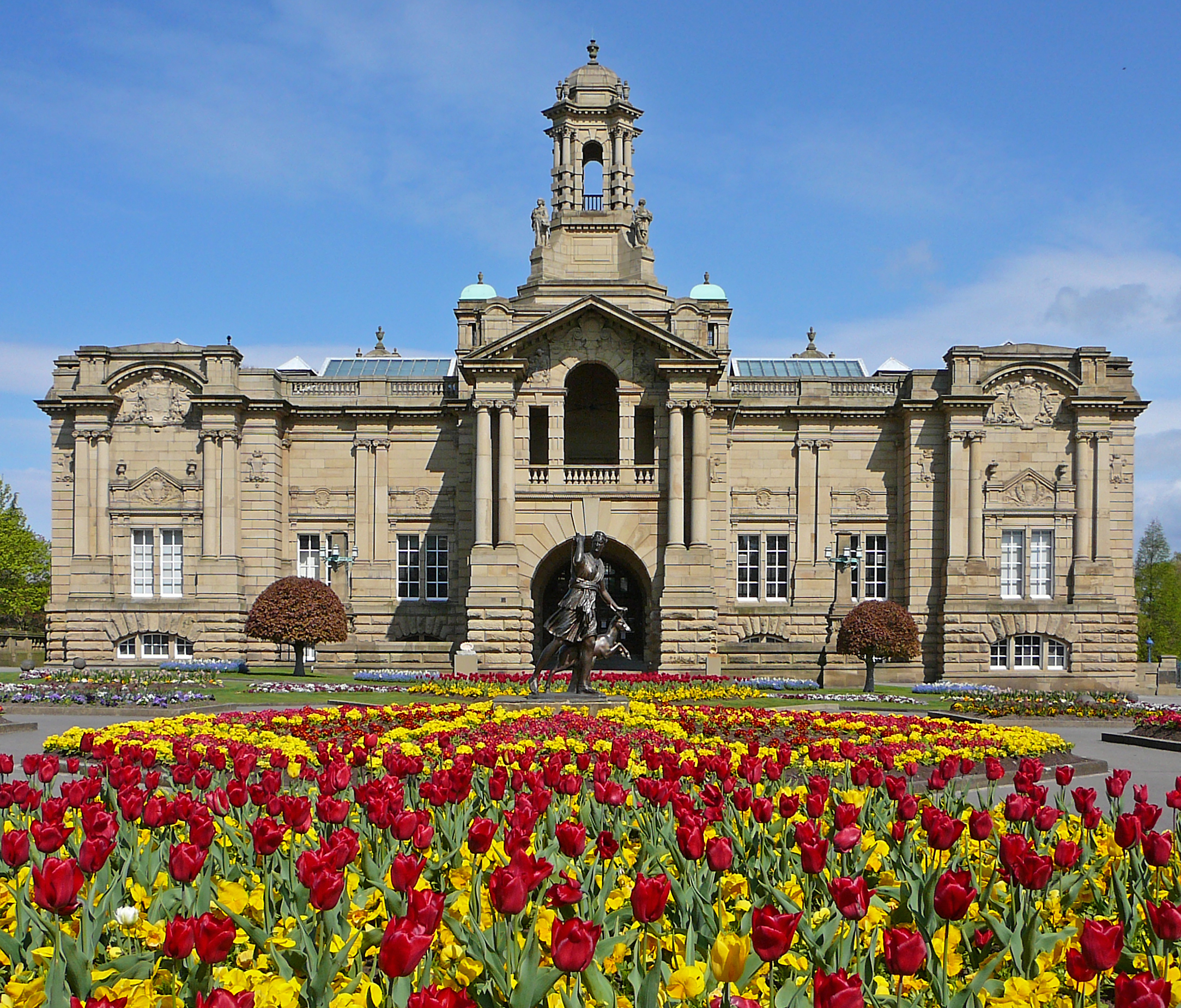 Cartwright Hall in Bradford, West Yorkshire. Taken on Tuesday the 4th of May 2010.